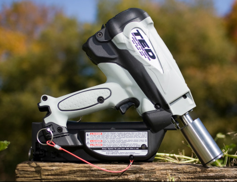 Mode of Operation Production of concussion and trauma to the cerebral hemisphere and brainstem, sufficient to induce sudden loss of consciousness and subsequent death. Captive Bolt (CB) The modern captive bolt device and a conventional automobile engine have a similar means of converting the potential energy released from burning fuel: the piston. The CB piston is connected to the bolt. The piston-bolt assembly is held “captive” in the cylinder and cycles from one end of the cylinder to the other with each firing.